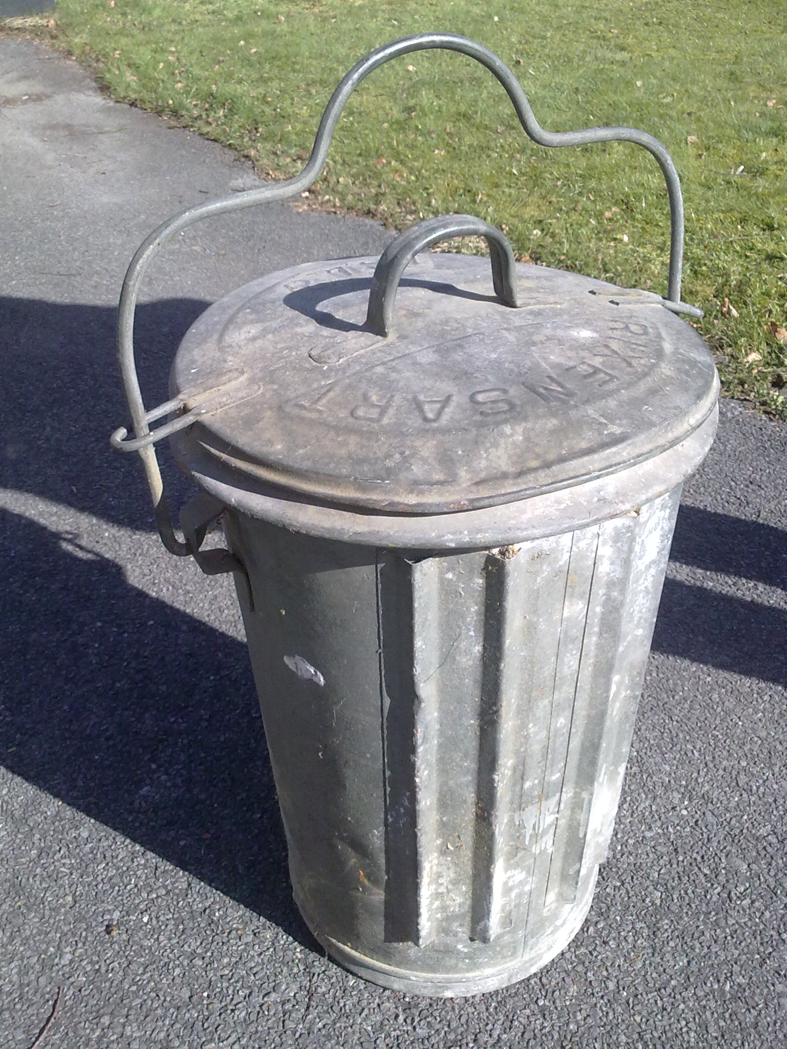 Belgian garbage bin - model designed and coined with the commune name "RIXENSART"